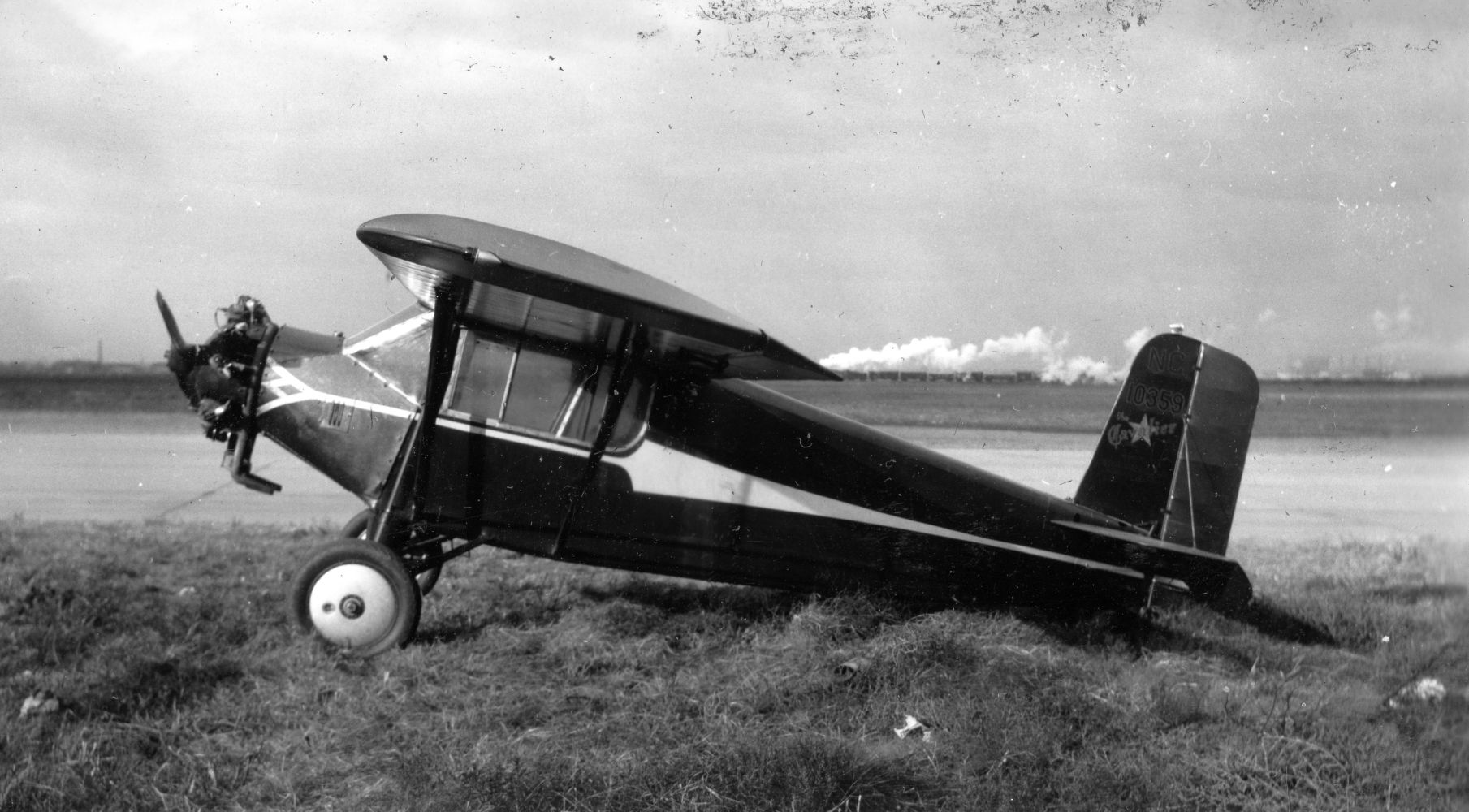 Images from an Album (AL-61A) which belonged to Mr. Lowry and was donated to the Leisure World Aerospace Club. Repository: San Diego Air and Space Museum Archive